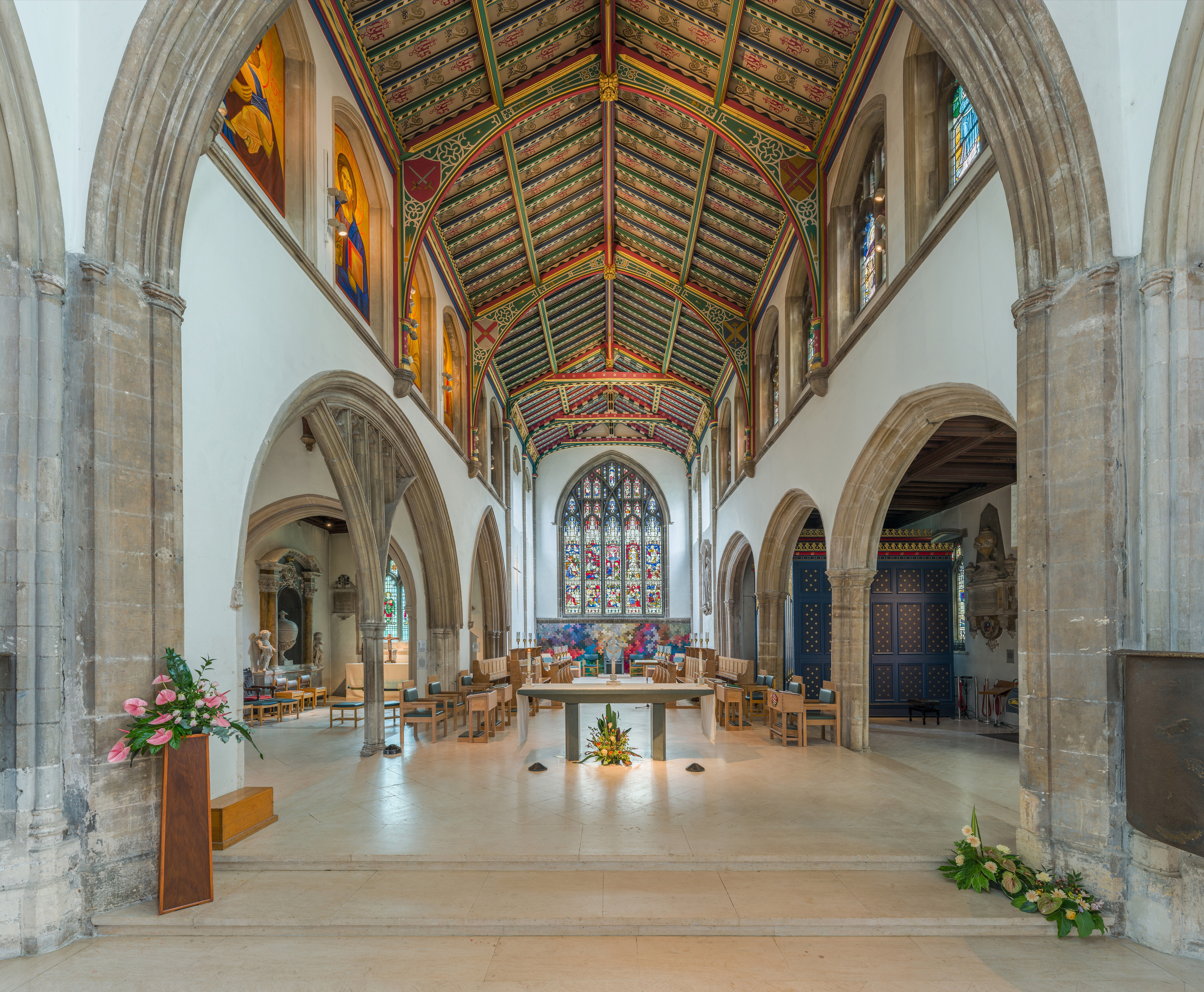 The chancel of Chelmsford Cathedral in Essex, England, viewed from the west.